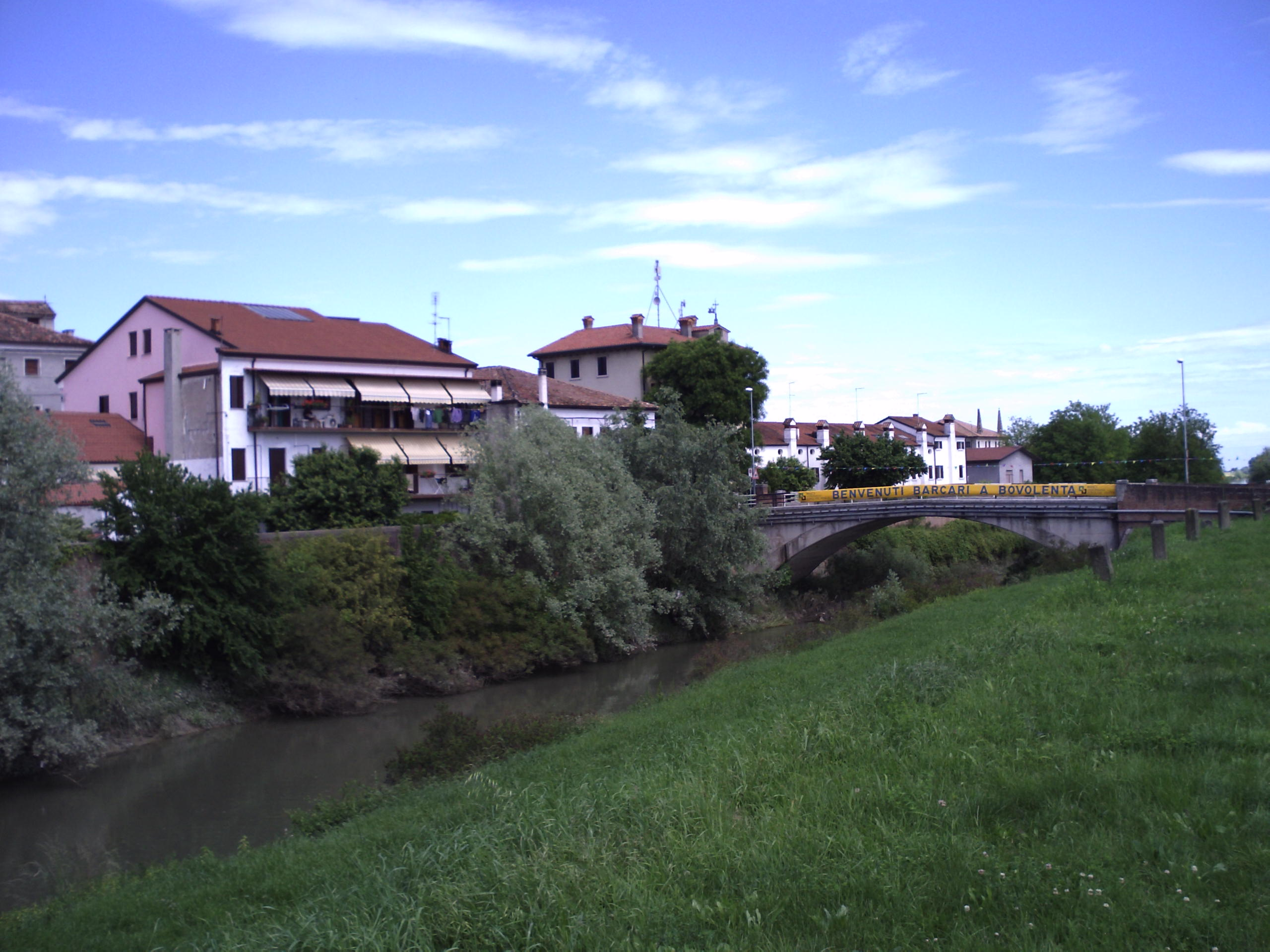 View of Bovolenta, Italy